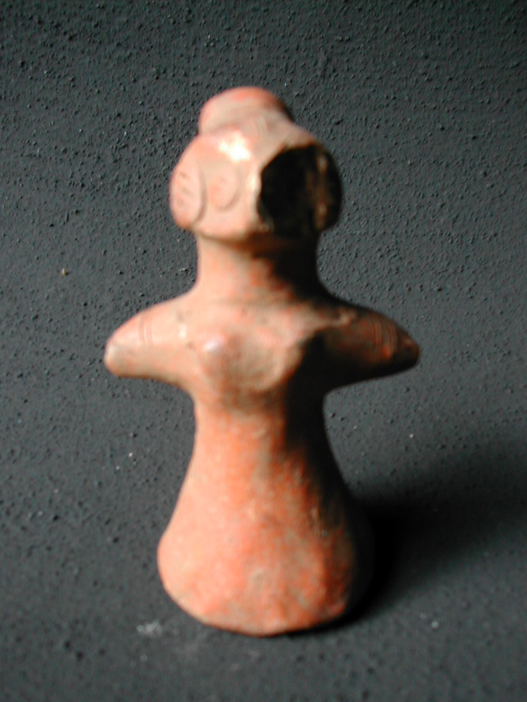 Birdwoman hzb